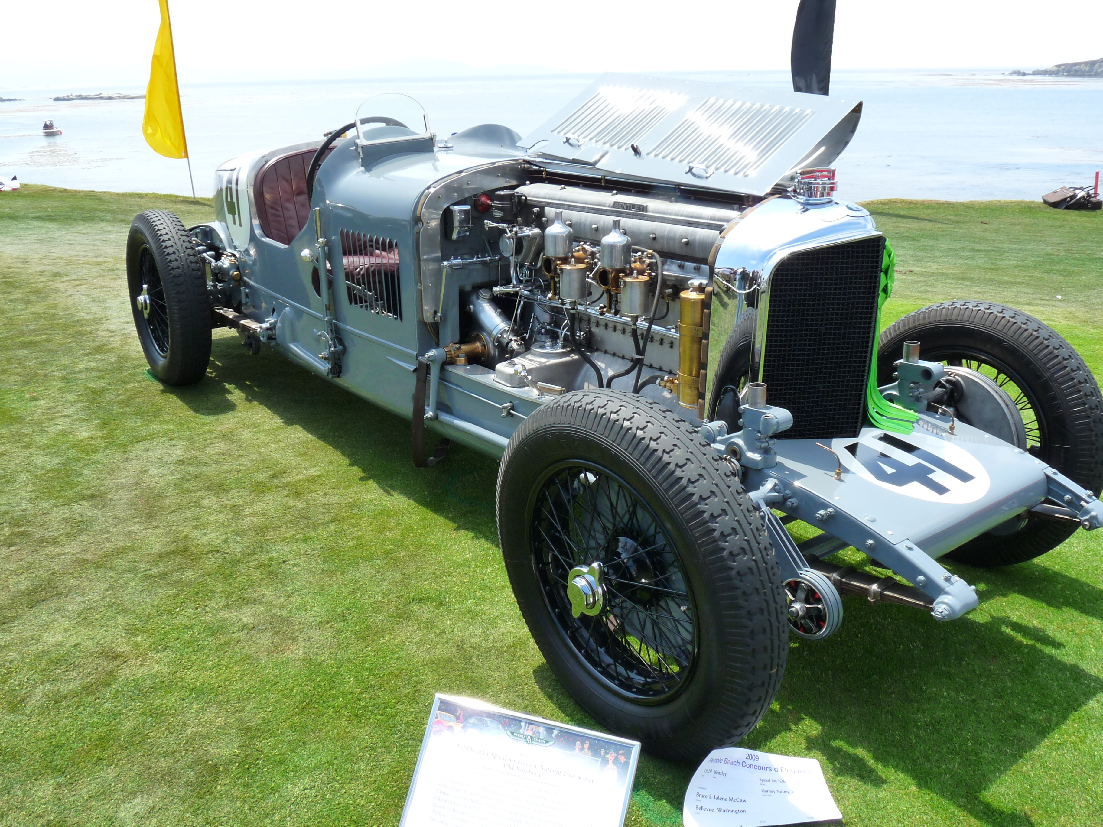 1929 Bentley Speed Six Gurney Nutting "Old Number 1" at 2009 Pebble Beach Concours d'Elegance.